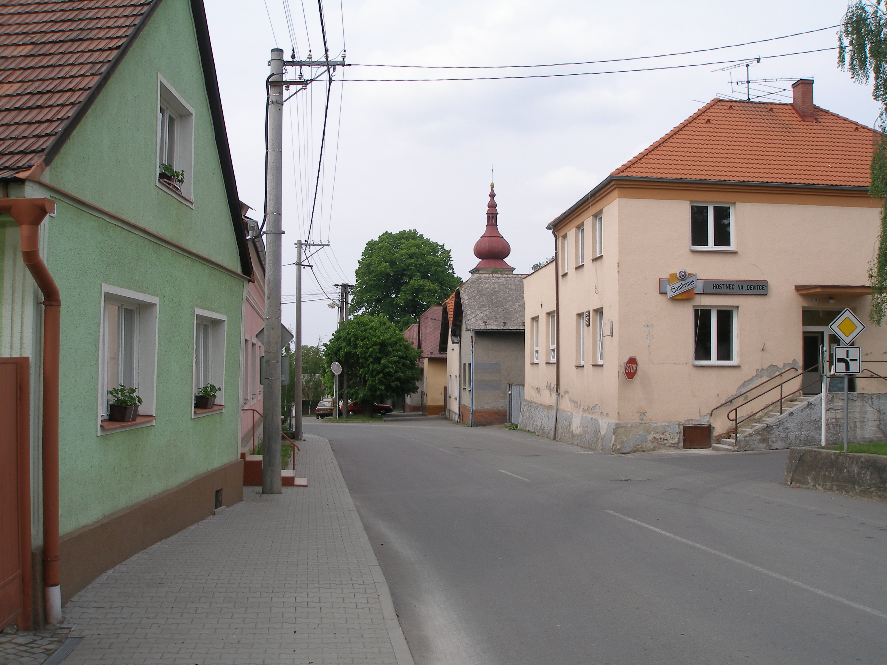 The main street of Březová (Opava District)